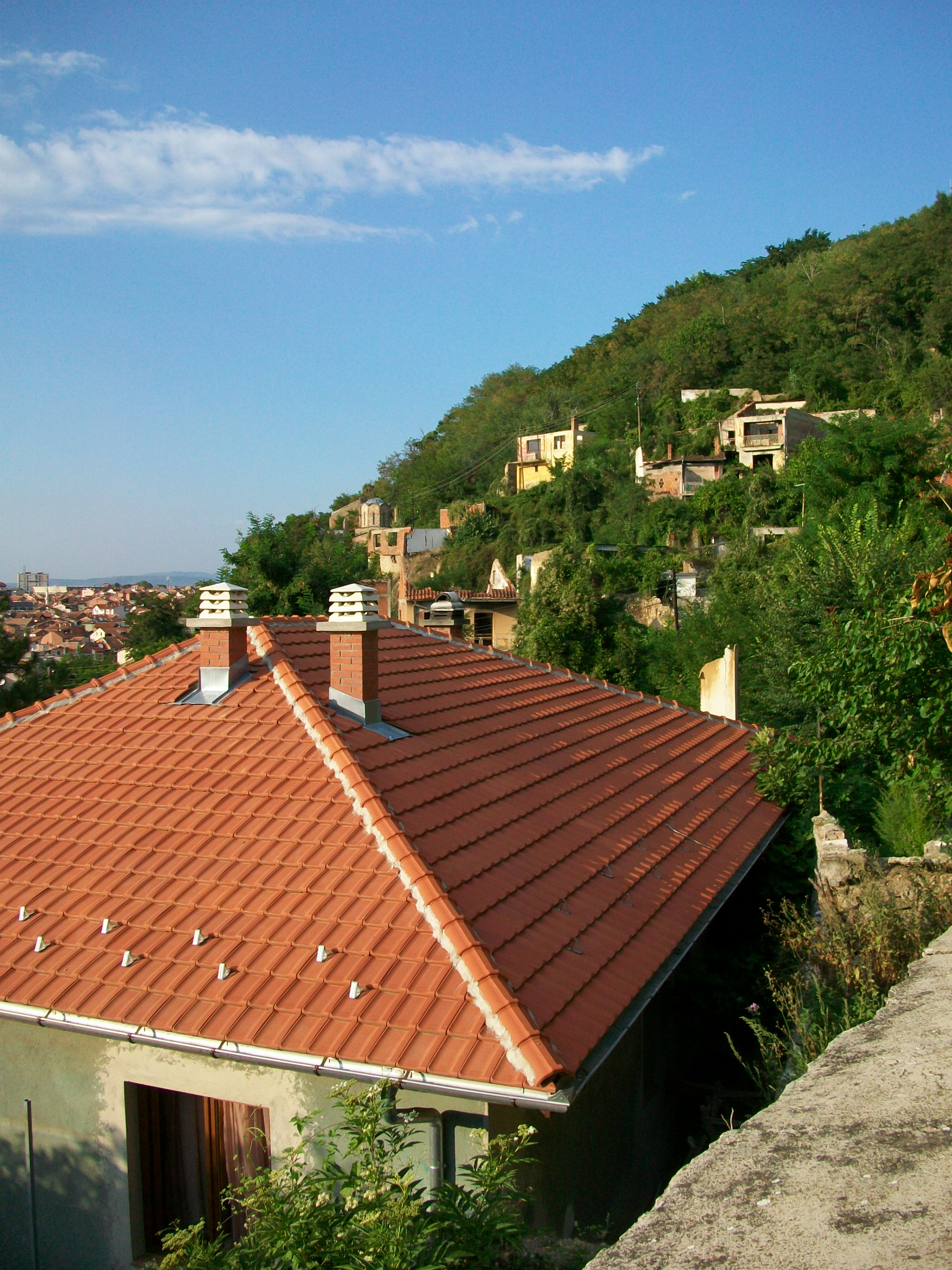 Pictures from Prizren Kosovo